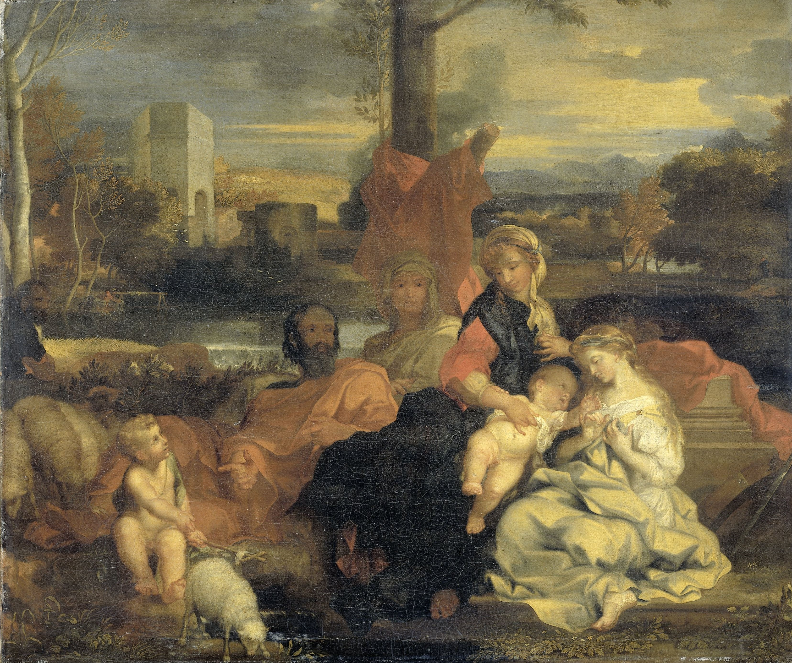 To the right Saint Catherine with the Christ child; in the center and to the left Mary, Joseph, Anna and Saint John the Baptist as a child with a herd of sheep. In the background a landscape with buildings and ruins on the water.